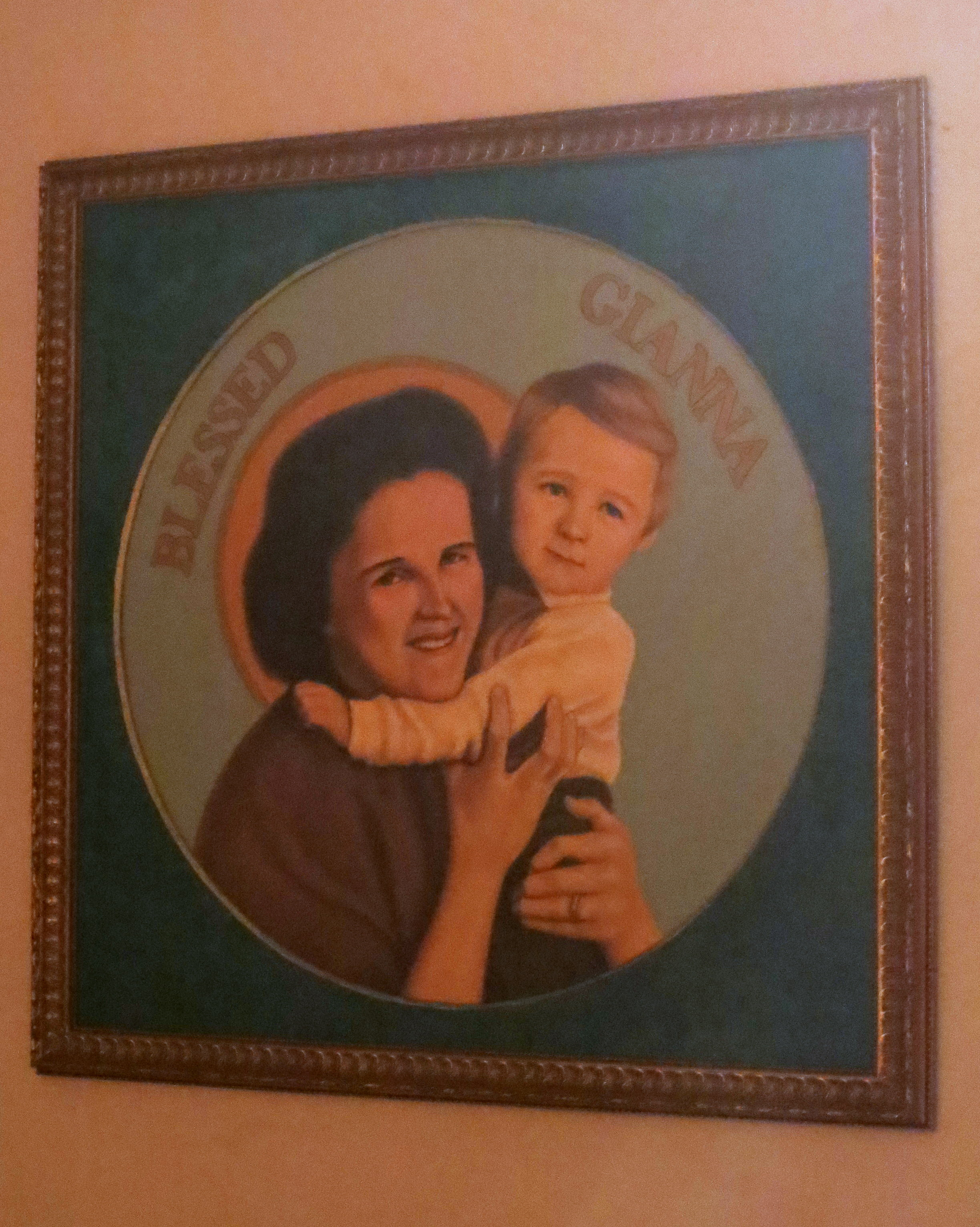 Saint Patrick Catholic Church (Columbus, Ohio) - ceiling mural, Blessed Gianna Beretta Molla